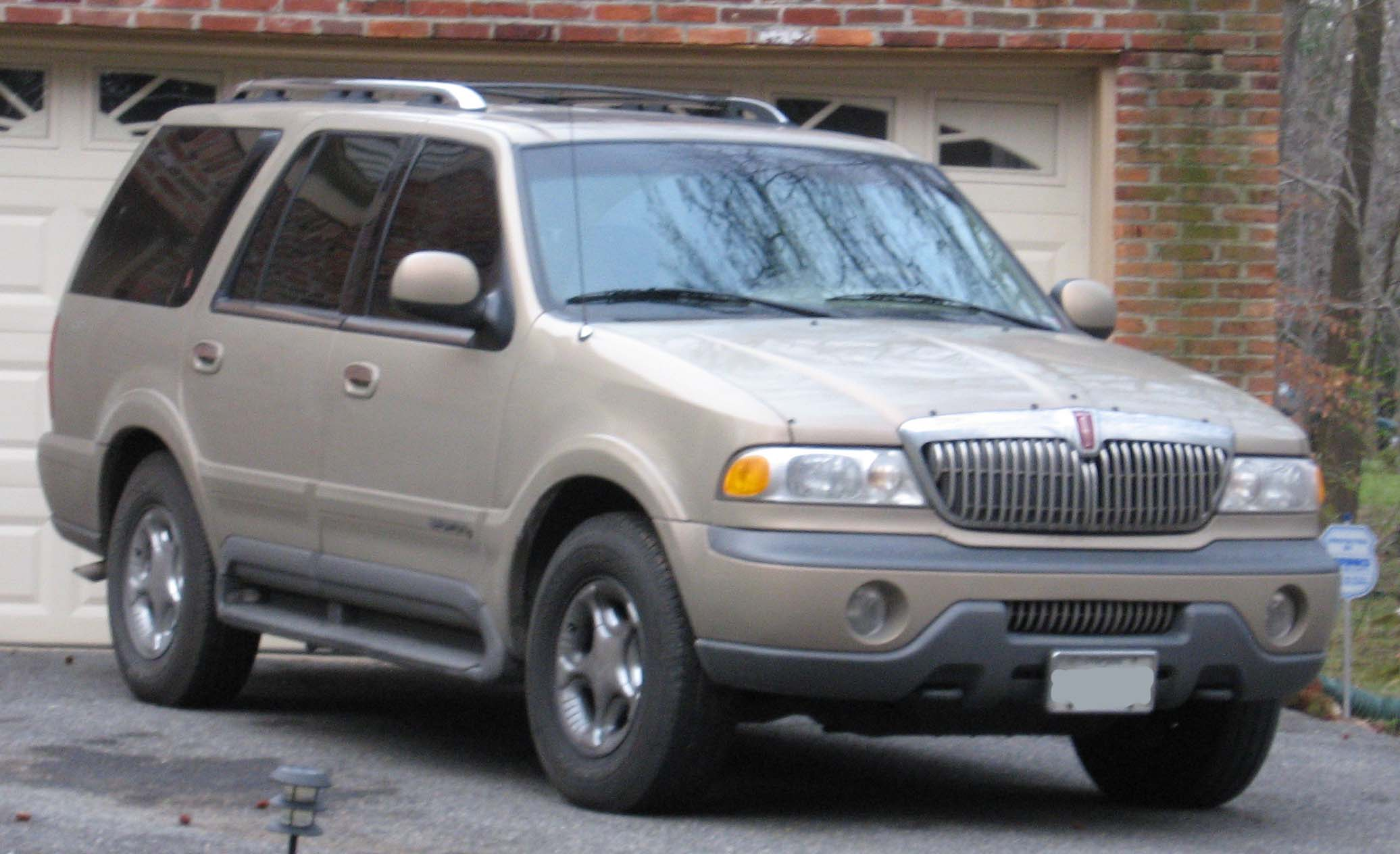 1998-2002 Lincoln Navigator photographed in USA.